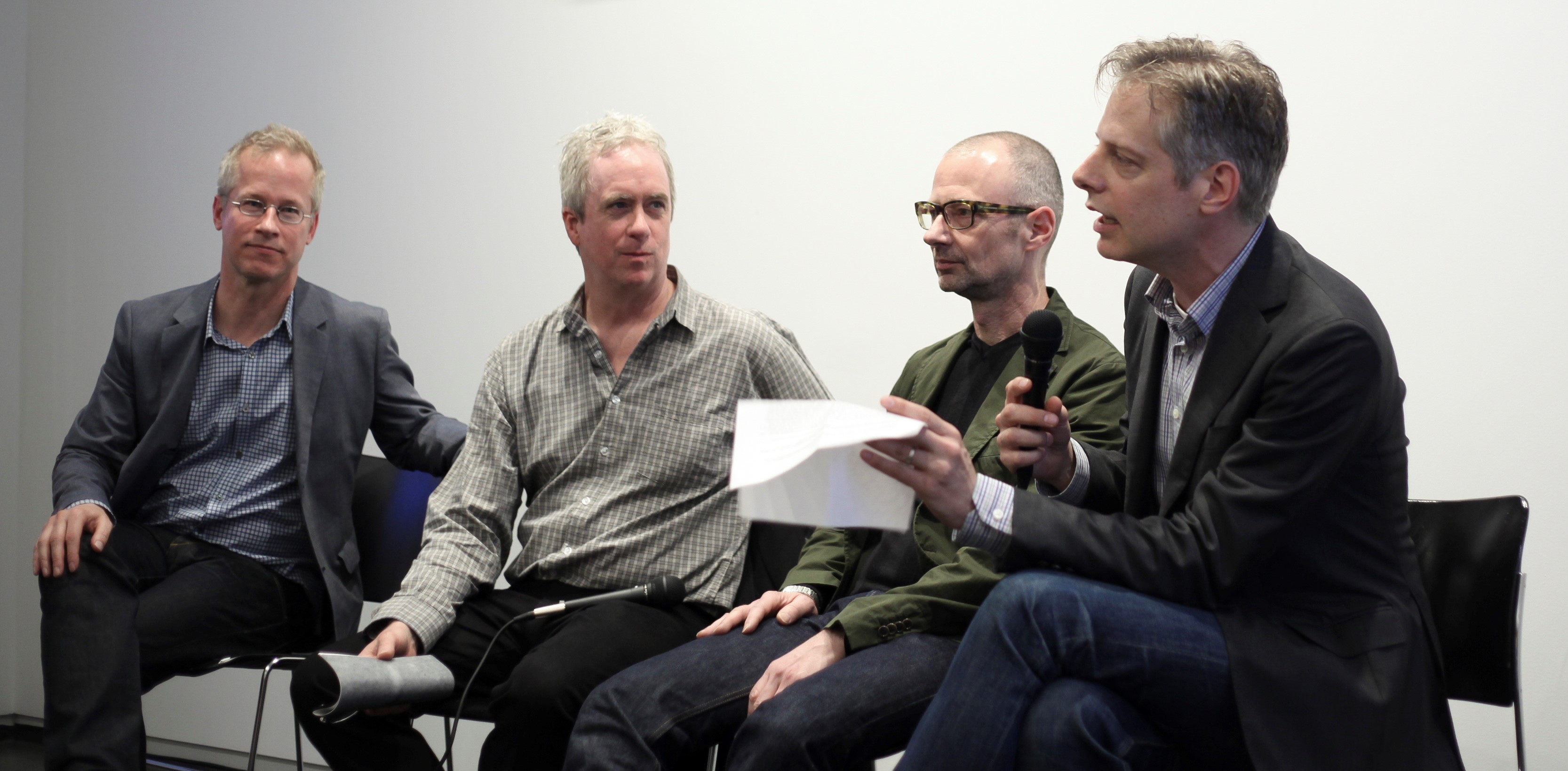 Branden W. Joseph, Tony Oursler, John Miller, Mark Wasiuta (Probe: Tony Oursler: UFOs and Effigies)